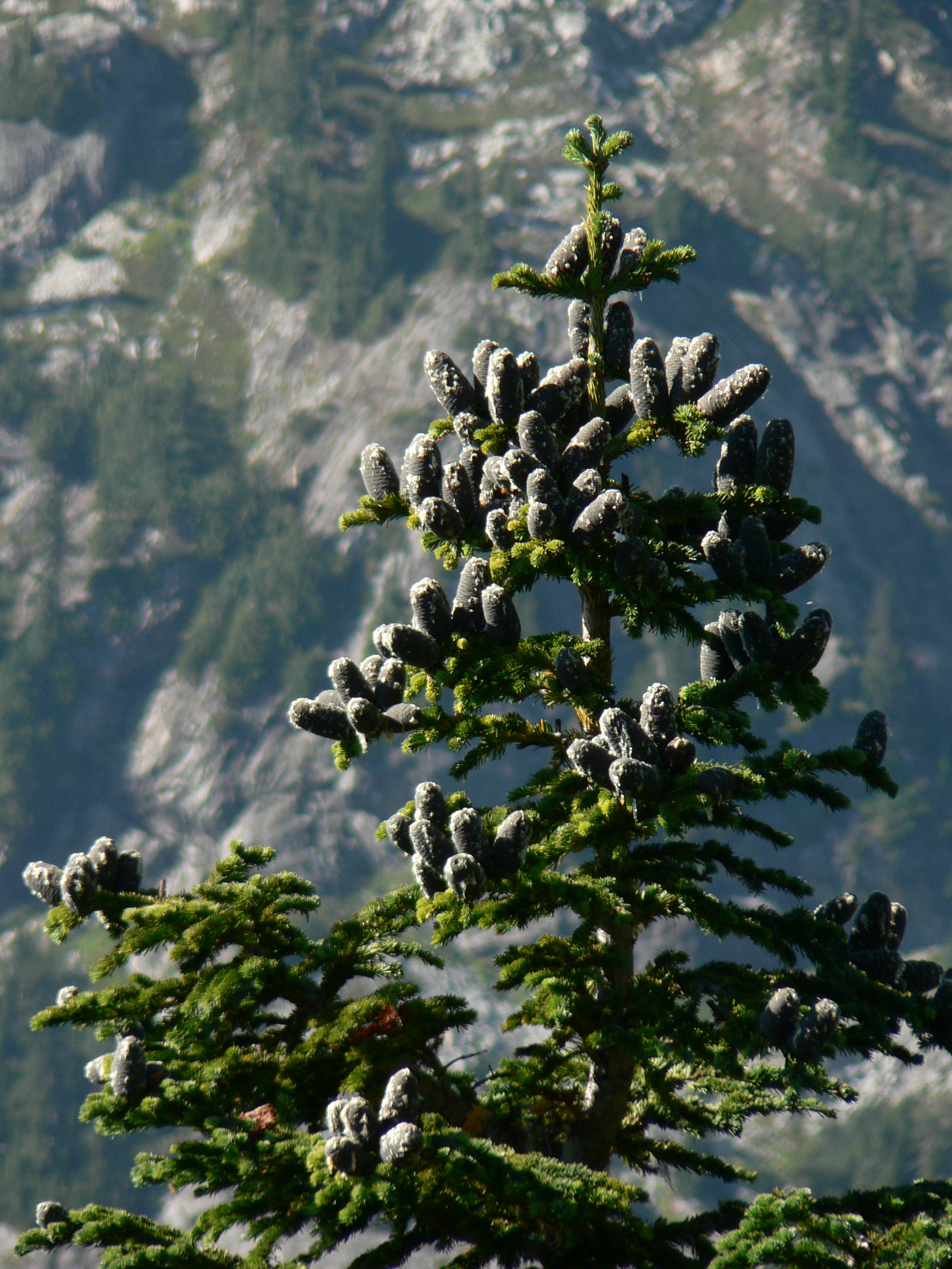 Subalpine Fir